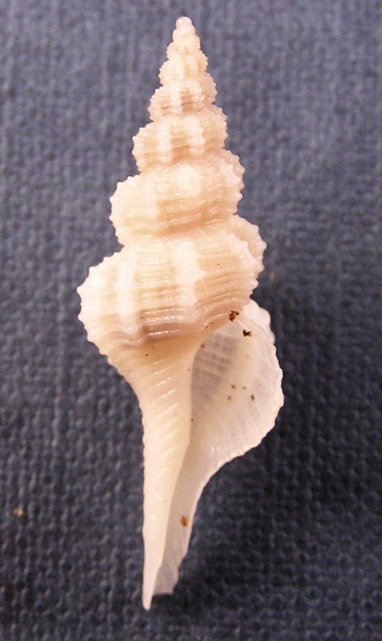 Pseudolatirus pallidus T. Kuroda & T. Habe, 1961, a spindle snail from the family Faciolariidae; Philippines